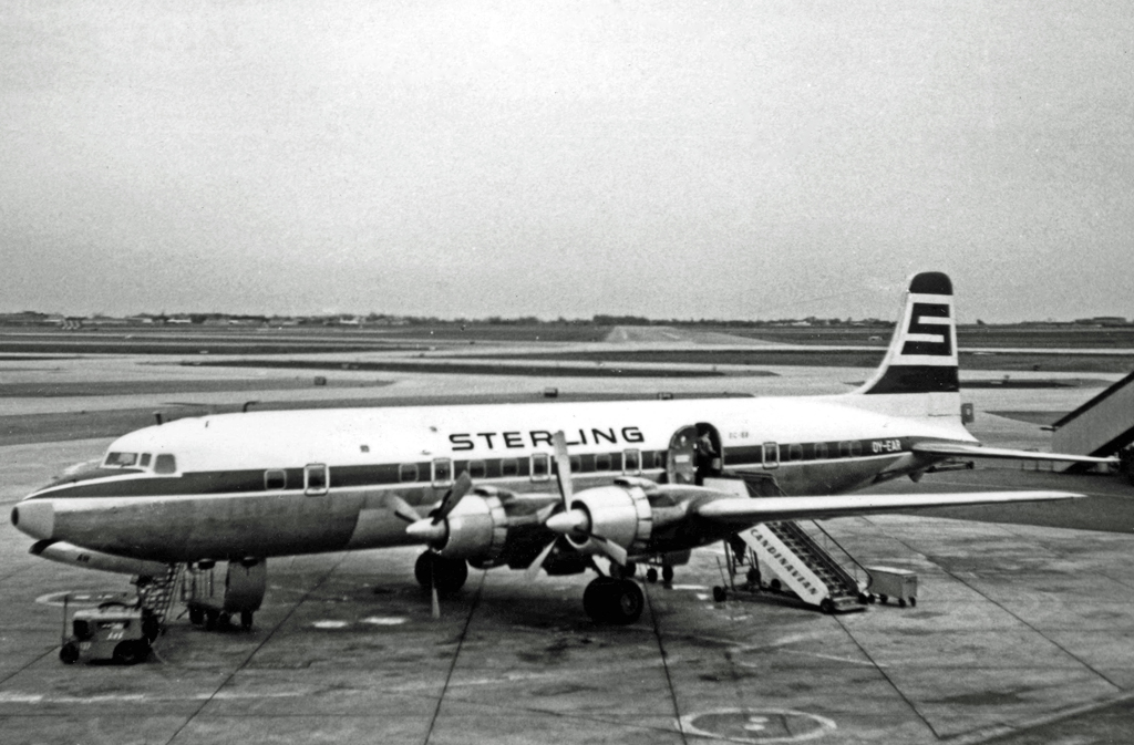 Sterling Airways Douglas DC-6B OY-EAR at Copenhagen (Kastrup) Airport